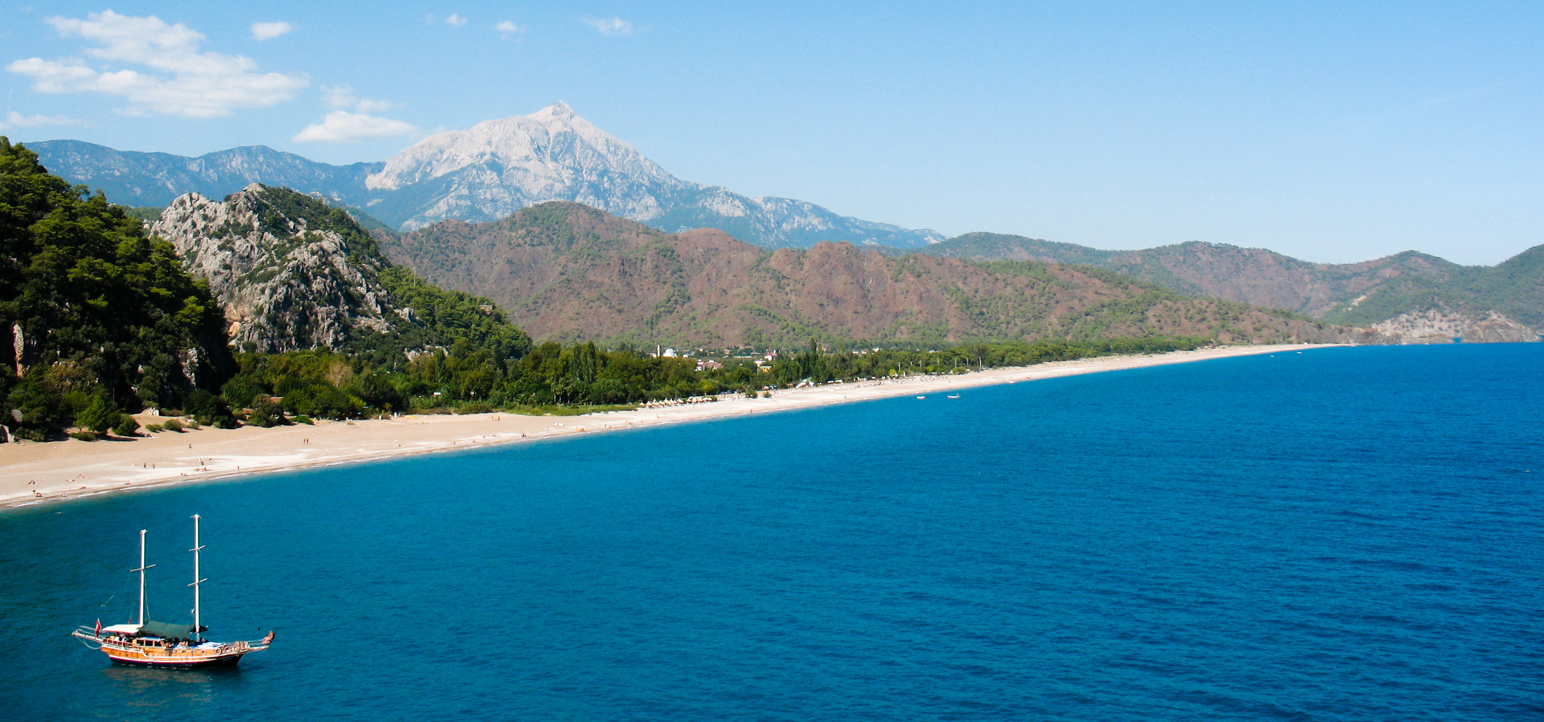 Olympos beach